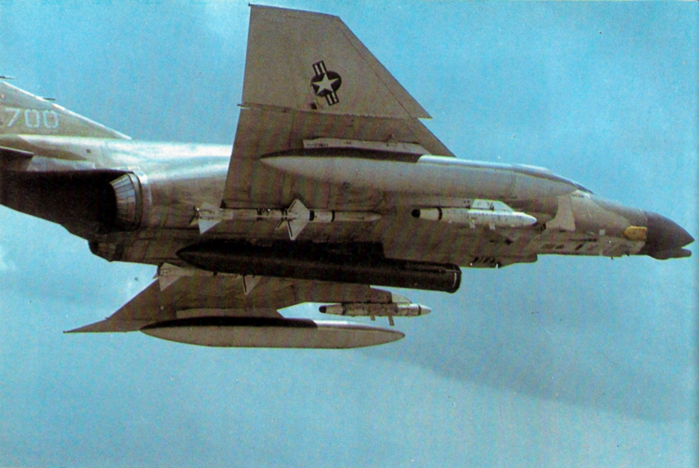 A U.S. Air Force McDonnell F-4D-31-MC Phantom II (s/n 66-7700) from the 13th Tactical Fighter Squadron, 432nd Tactical Reconnaissance Wing, in flight over Vietnam in late 1971. The aircraft is armed with two AIM-7 Sparrow missiles, and carries two AN/ALQ-72 jamming pods under the wings, and a "Pave Sword" laser targeting pod on the centerline station.